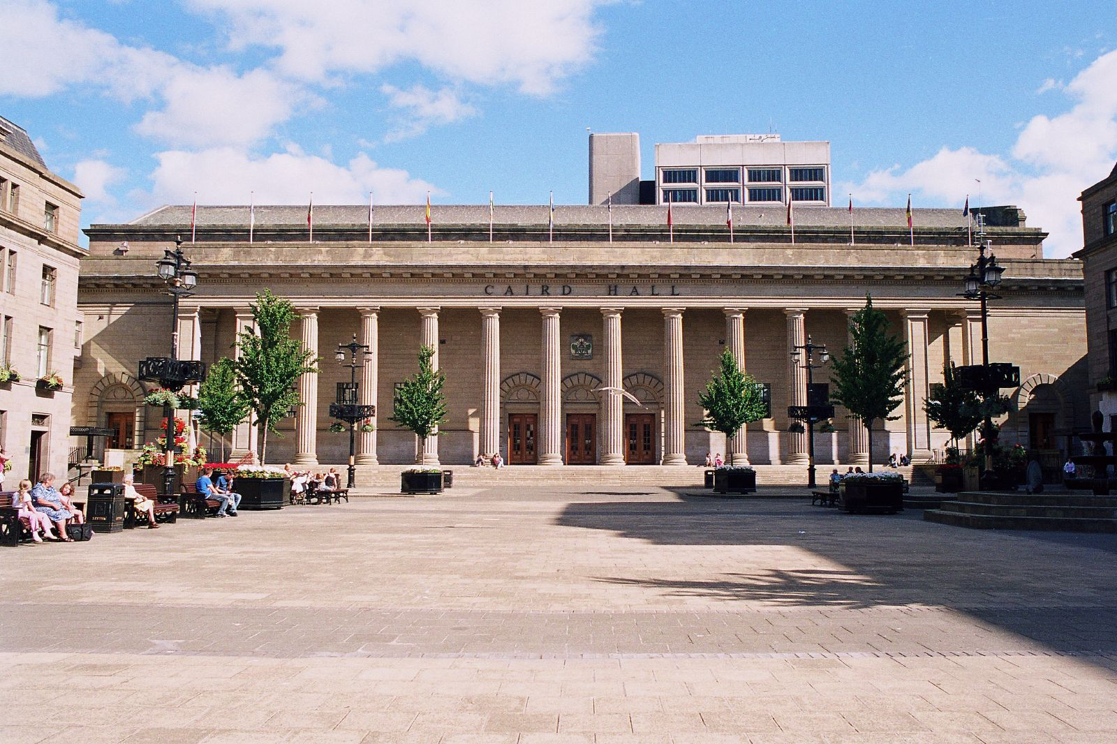 The City Square (foreground) and Caird Hall in Dundee, Scotland.